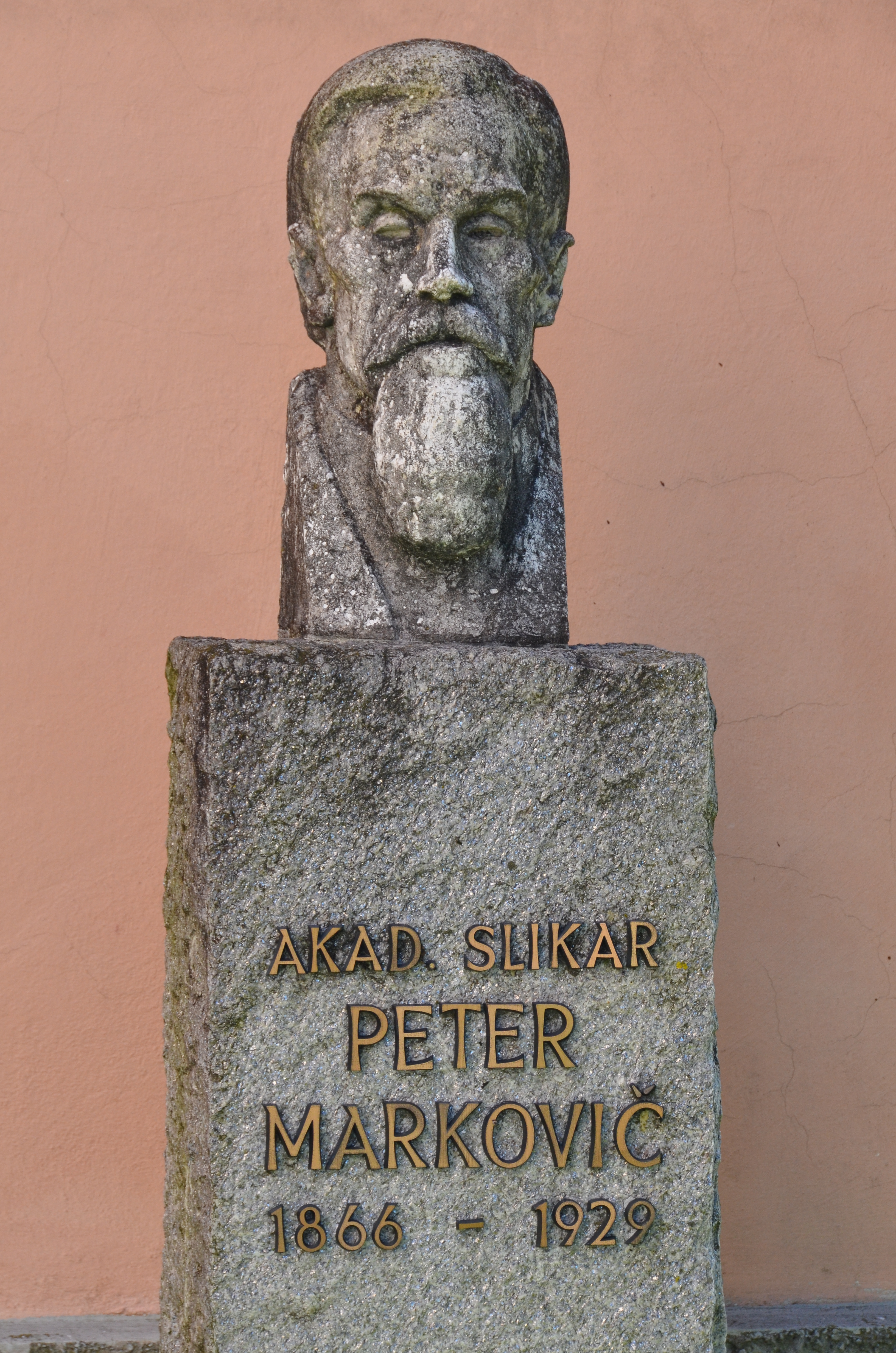 Monument of the academic painter Peter Markovič in Rosegg, market town Rosegg, district Villach Land, Carinthia, Austria, EU